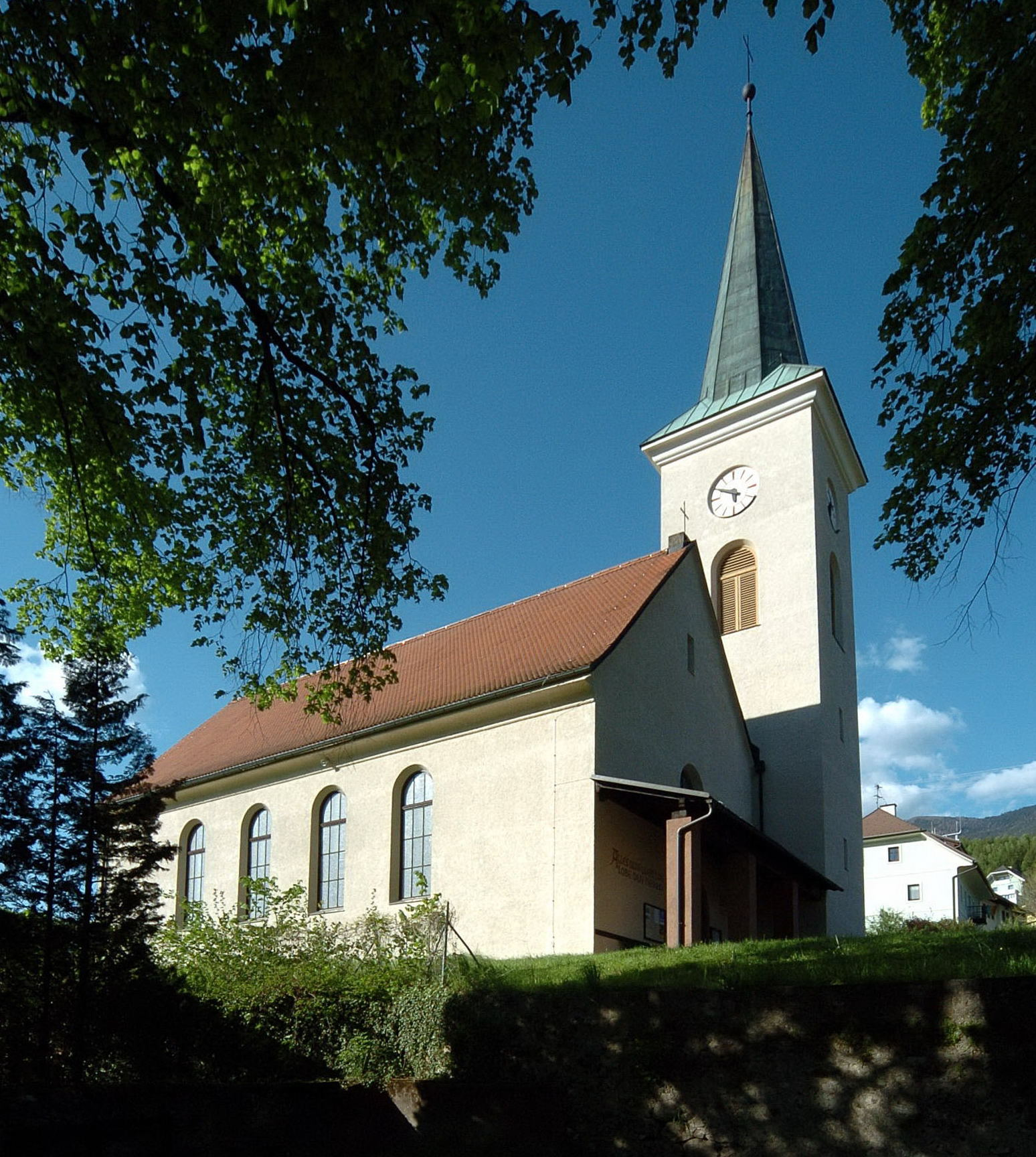 Protestant parish church on Museumweg in Fresach, municipality Fresach, district Villach Land, Carinthia, Austria, EU